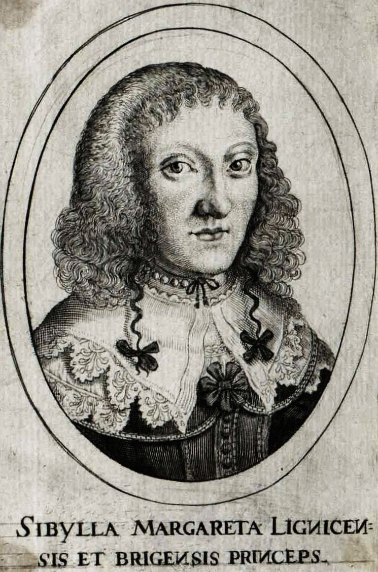 Sibylle Margarethe of Liegnitz-Brieg(1620-1657) was a Silesian princess member of the House of Piast.